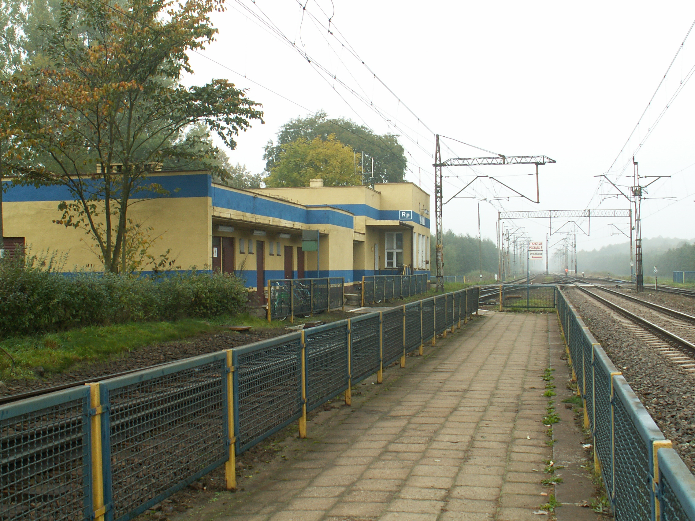 Train station in Reptowo (Kobylanka commune), West Pomeranian Voivodeship